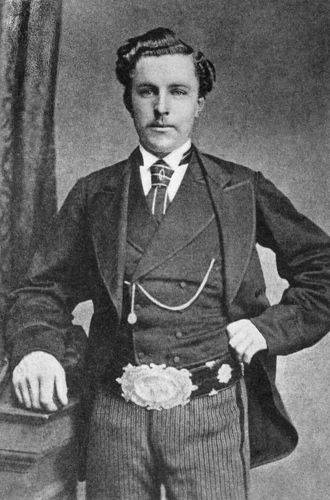 Scottish golfer 'Young' Tom Morris (1851 - 1875) wearing the British Open belt which he won four times.